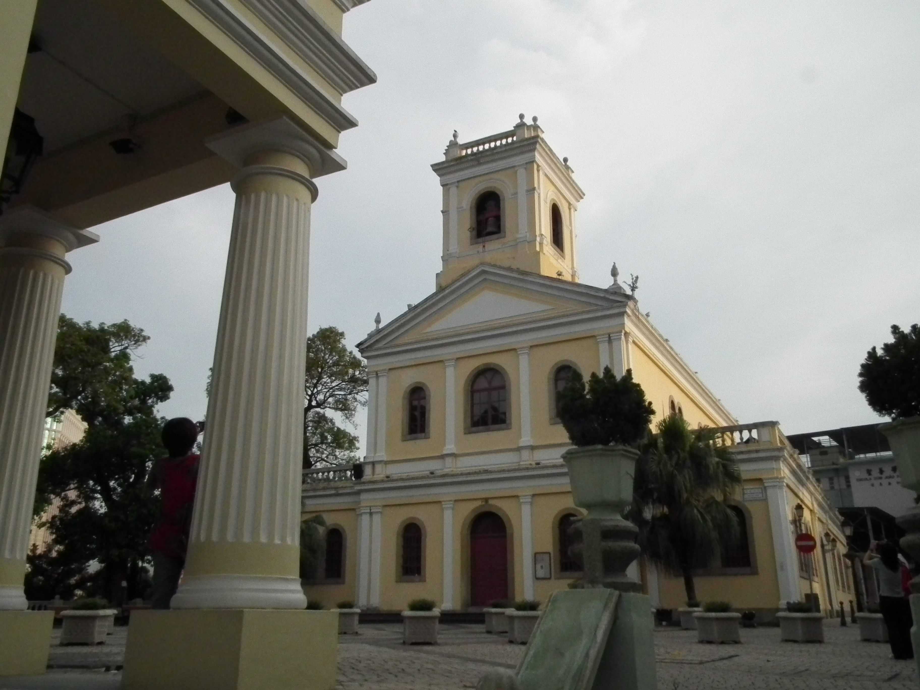 Our Lady of Carmel Church 嘉模聖母堂